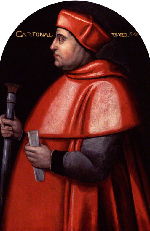 Portrait of Thomas Wolsey